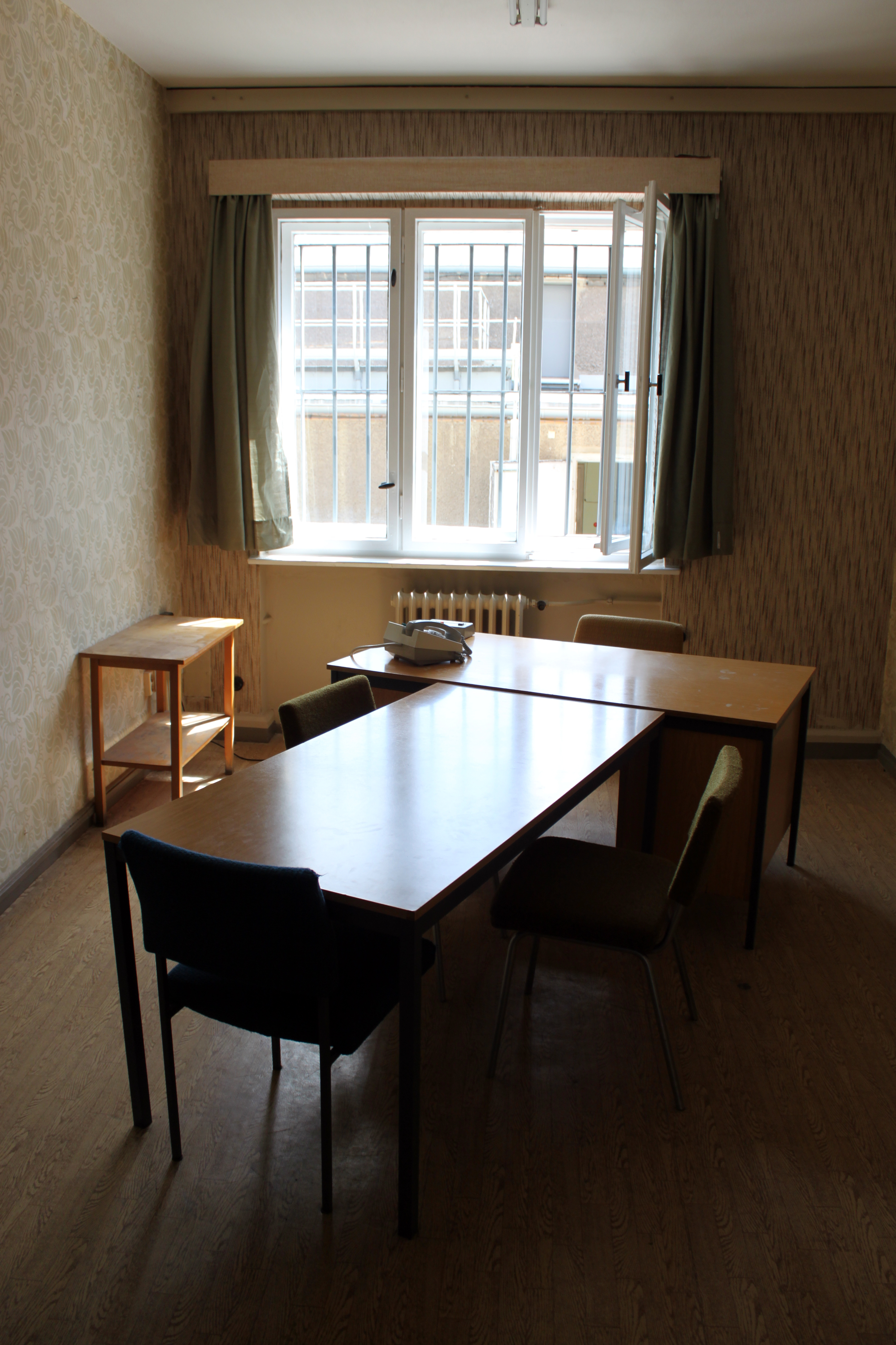 Memorial Berlin-Hohenschönhausen - Detention of the Ministry for State Security - Interrogation Room